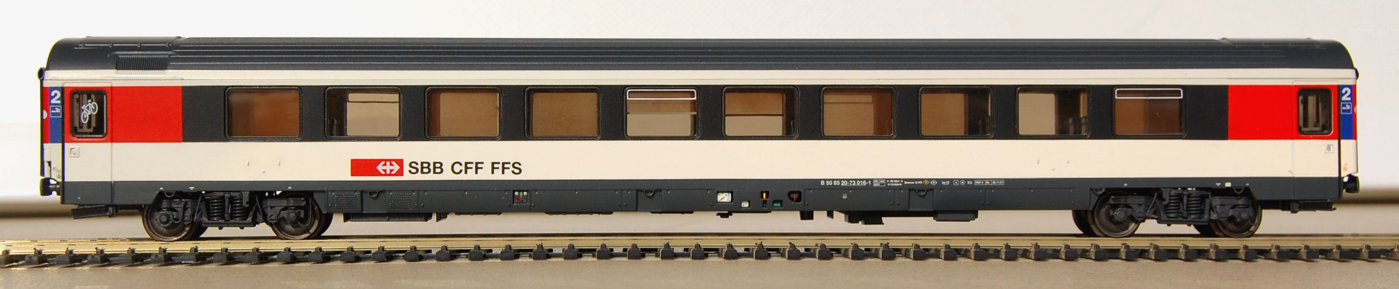 2nd class UIC-Z1 coach of the SBB, on corridor side (without window facing toilets) in IC-2000 livery ; HO scale model by LS Models, ref 47243, 2011.